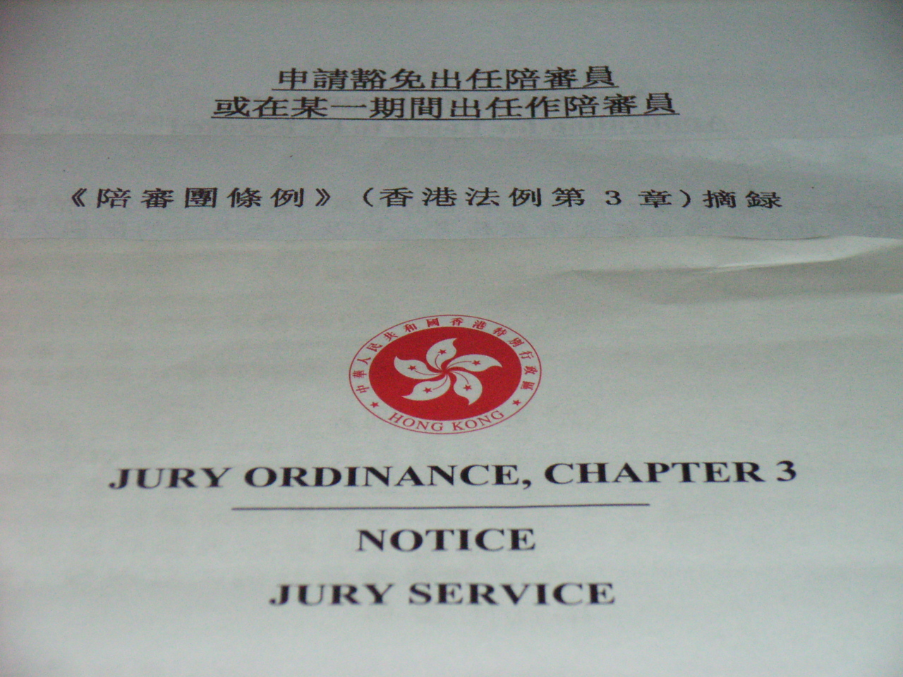 Jury Ordinance, Chapter 3, Hong Kong